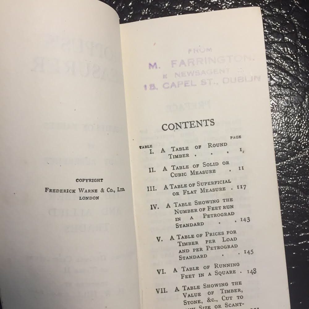 Edward Hoppus: Hoppus’s Measurer, book contents page